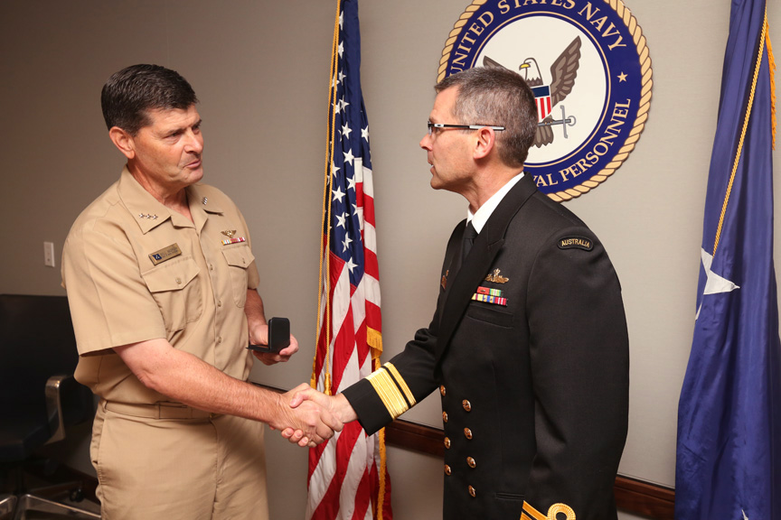 Washington (Nov. 6, 2013) Vice Adm. William Moran, Chief of Naval Personnel and Deputy Chief of Naval Operations (Manpower, Personnel, Training Education/N1), meets with Royal Australian Navy Rear Adm. Michael Van Balen, Deputy Chief of Navy, and Head Navy Personnel and Resources. (U.S. Navy Photo by Mass Communication Specialist 1st Class Elliott Fabrizio/Released)